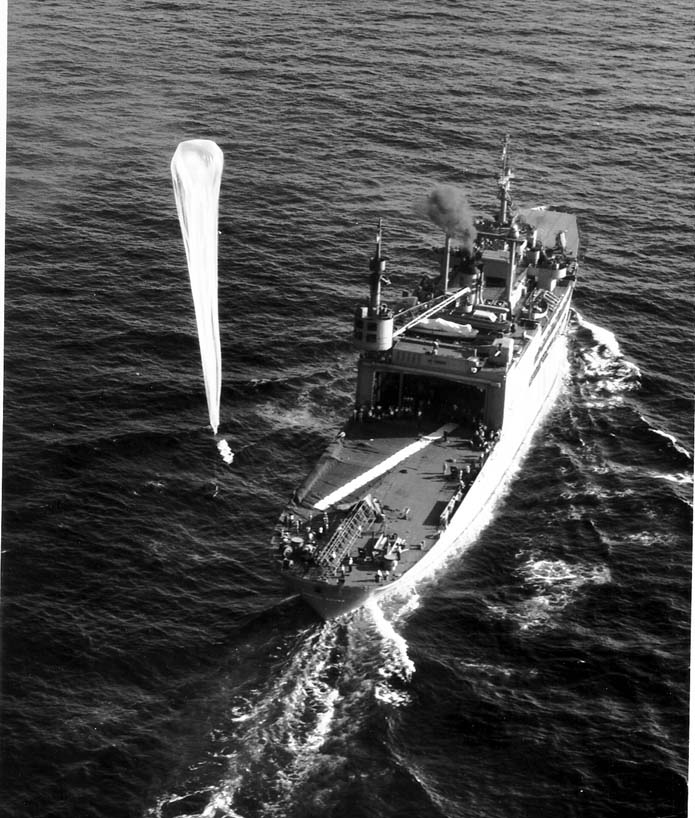 US Navy photo caption: In the late 1940s, Project Skyhook balloons provided a stable vehicle for long duration observations at altitudes in excess of 100,000 feet. Balloons, long used for collecting meteorological data, now offered the opportunity of collecting highly specialized information and photographs. This photograph shows Skyhook Ballon 93 leaving the deck of the USS Norton Sound (AV-11) on 31 March 1949. (U.S. Navy Photo RELEASED - 11/7/2003)